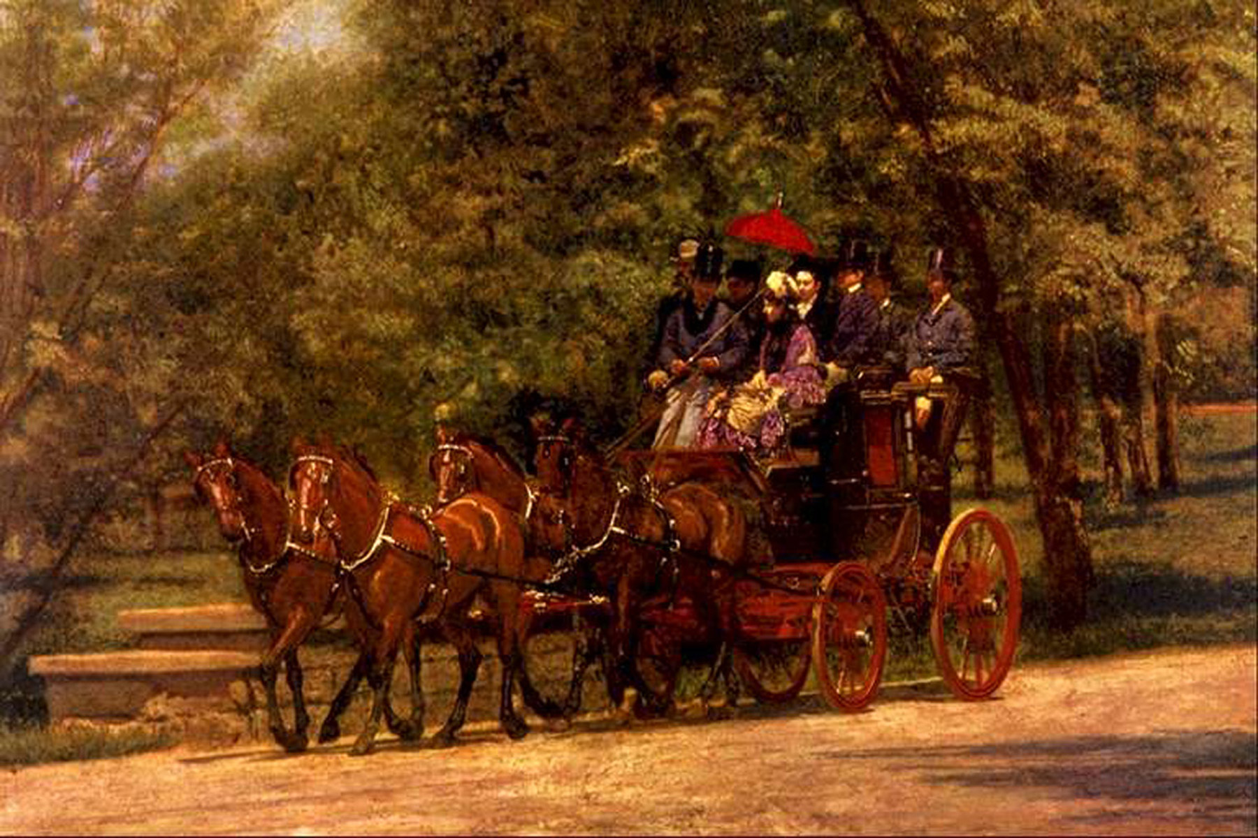 Painting by Thomas Eakins